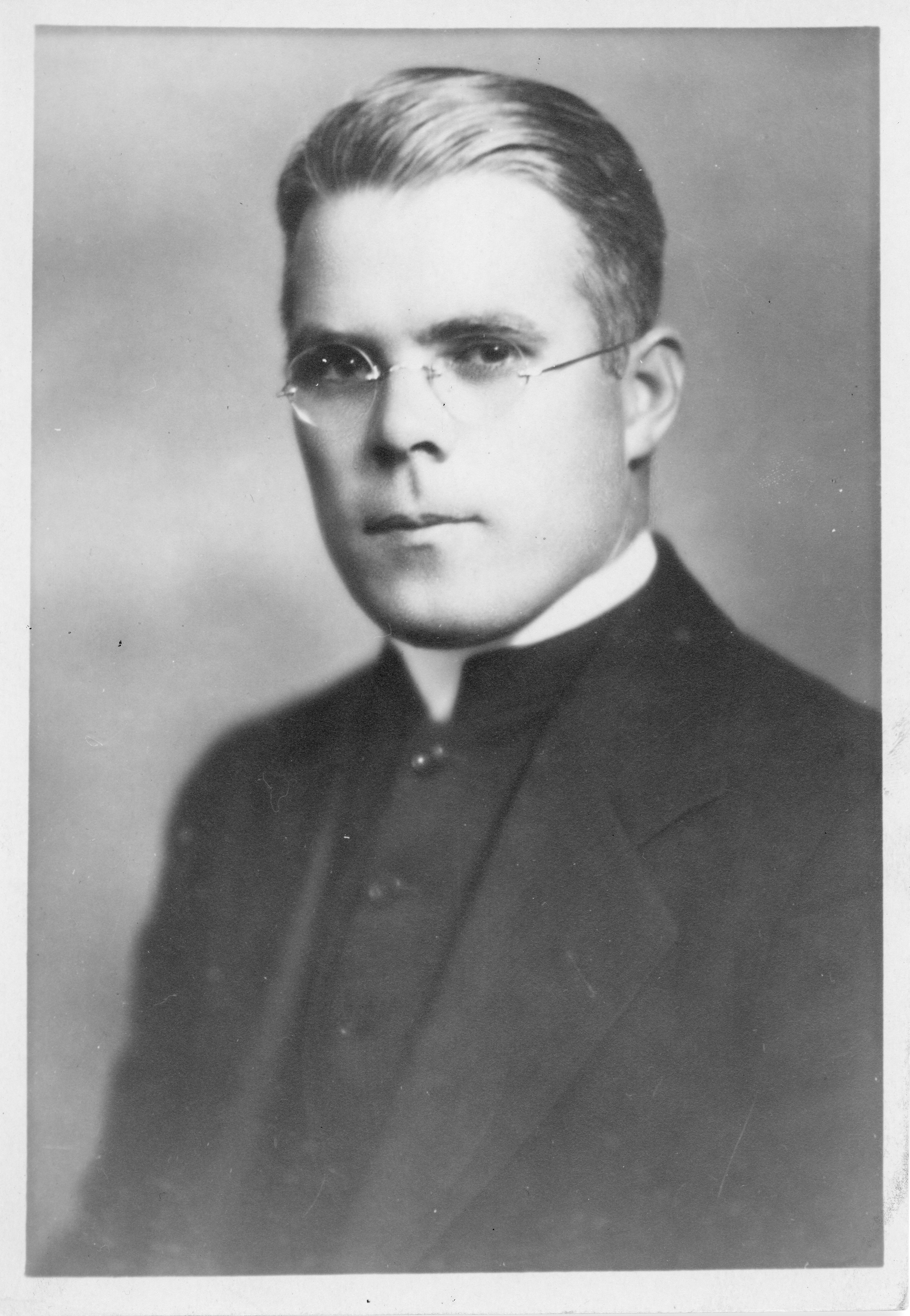 A portrait of Father Edward Dowling, a Jesuit priest and spiritual adviser of Bill W., co-founder of Alcoholics Anonymous